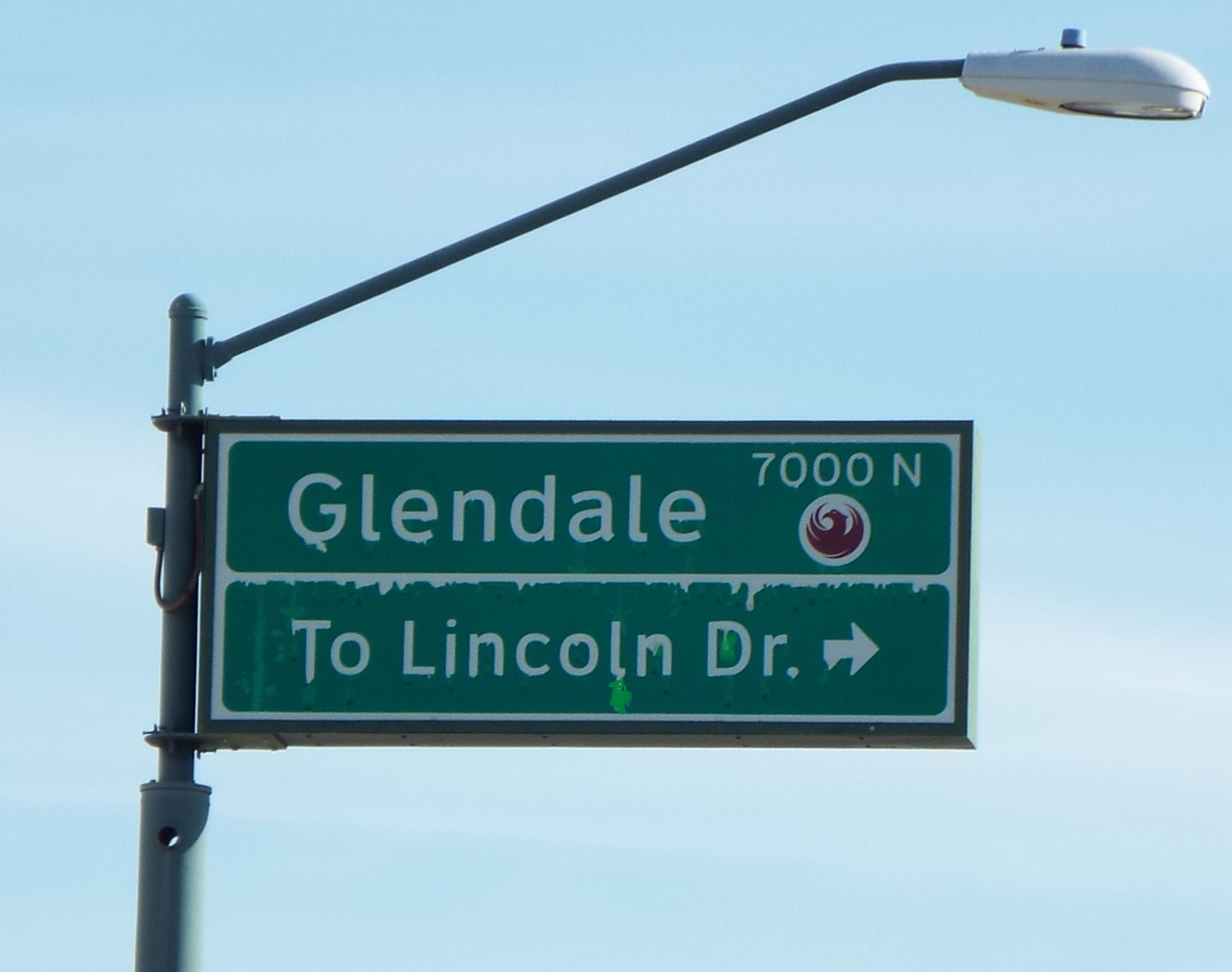 Phoenix street sign honoring John C. Lincoln (July 17, 1866 - May 24, 1959) an American inventor, entrepreneur and philanthropist.